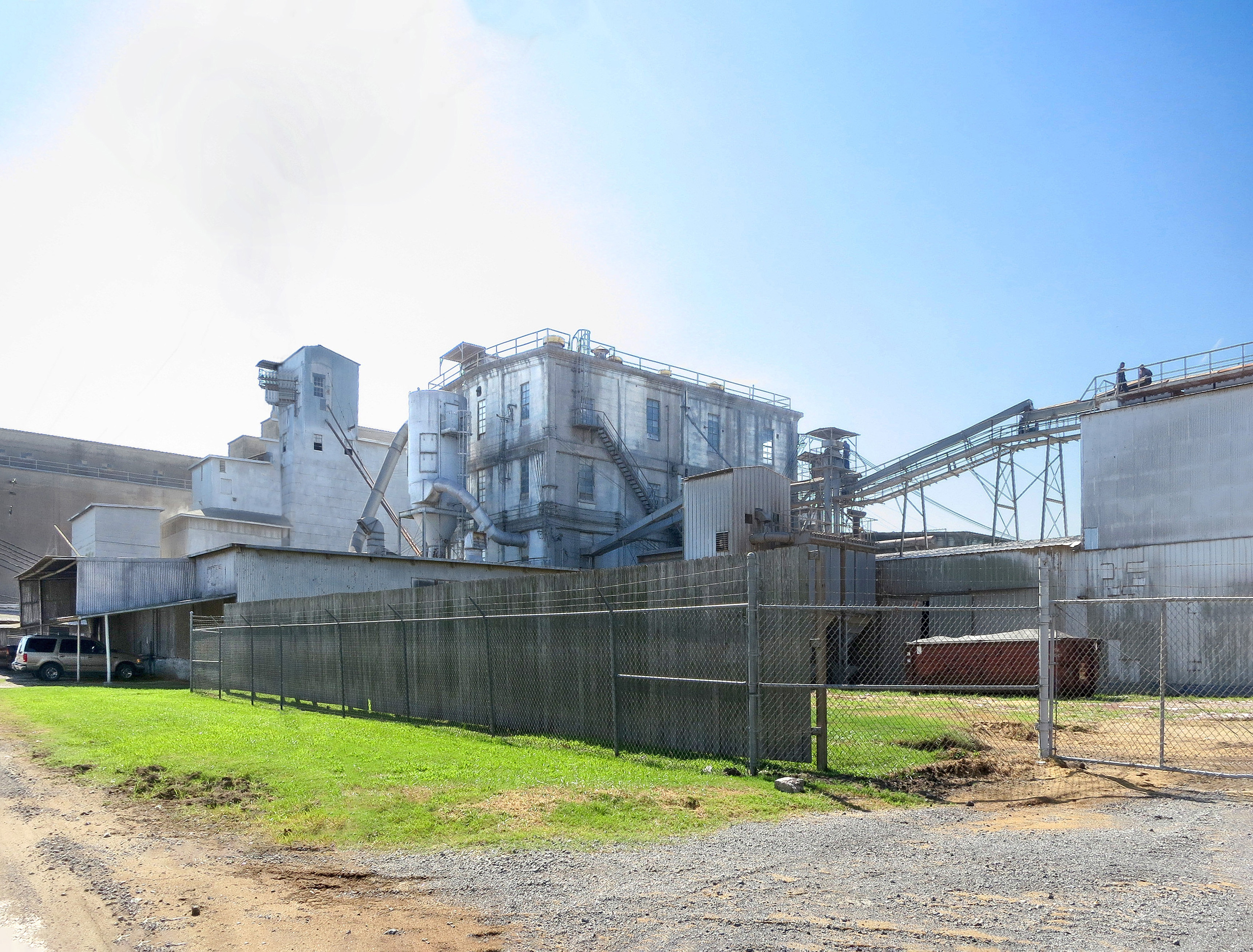 Texas' First Rice Mill, founded 1892 by J. E. Broussard, was developed after first commercial planting of rice in Texas in 1863. Earlier crops, due to dependence on rain, were dubbed “providence rice.” Broussard, pioneer grower and irrigator, was also co-founder of Rice Millers' Association. His efforts caused factories to spring up in nearby counties. Firm is still operated by his descendants. Present building was erected in 1907.